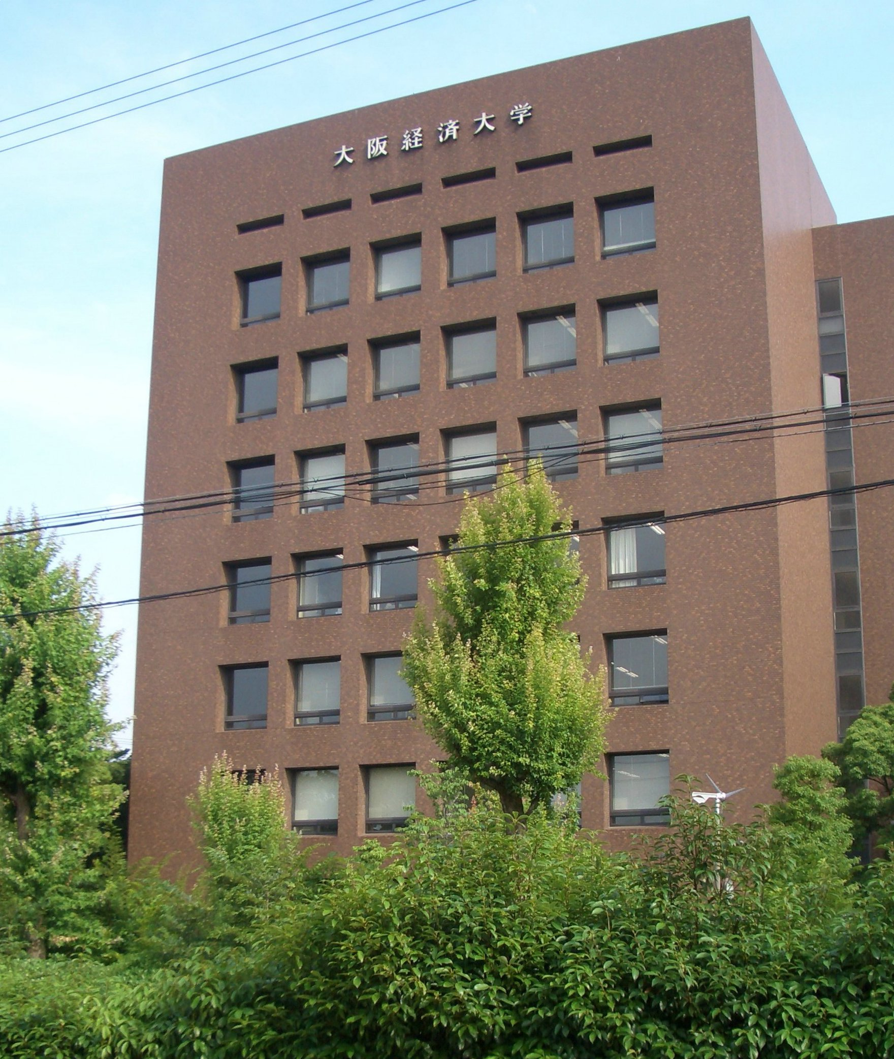 Osaka University of Economics